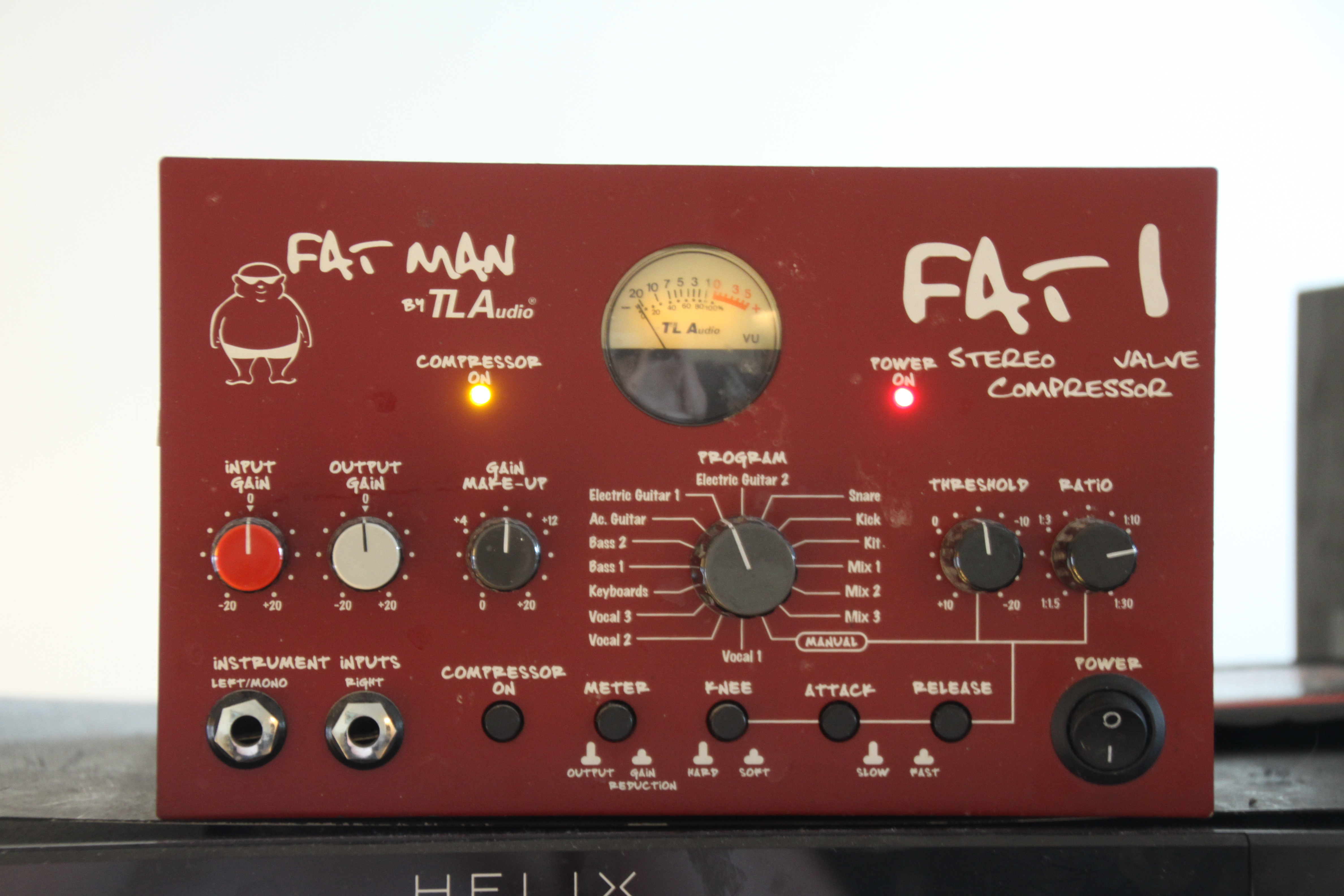 TLAudio Fat Man Fat 1 -stereo tube compressor.